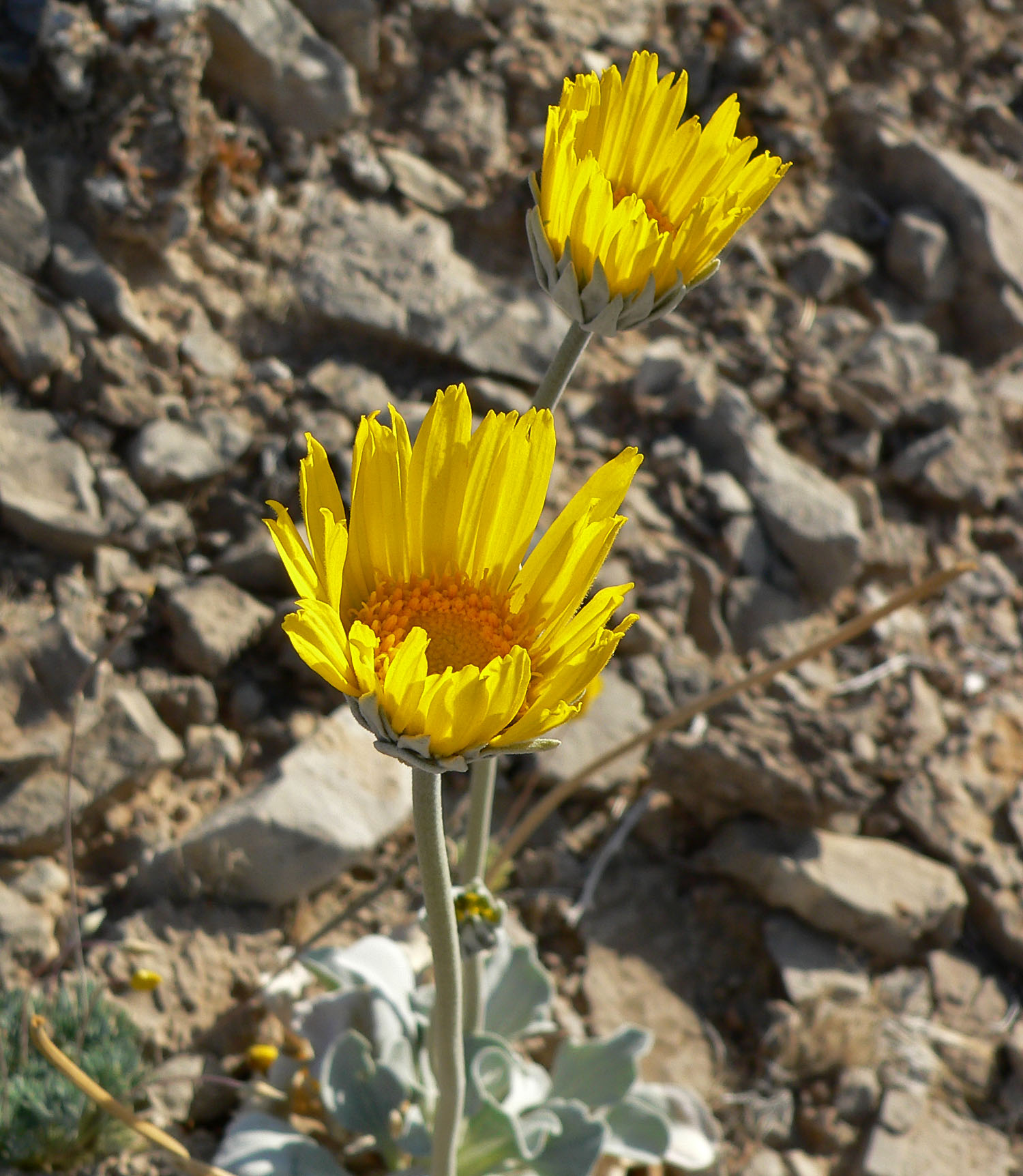 Enceliopsis nudicaulis var. nudicaulis in the State Line Hills, 1 km northwest of Primm, Nevada